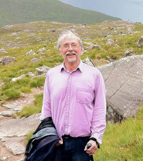 Walking with George Coulouris